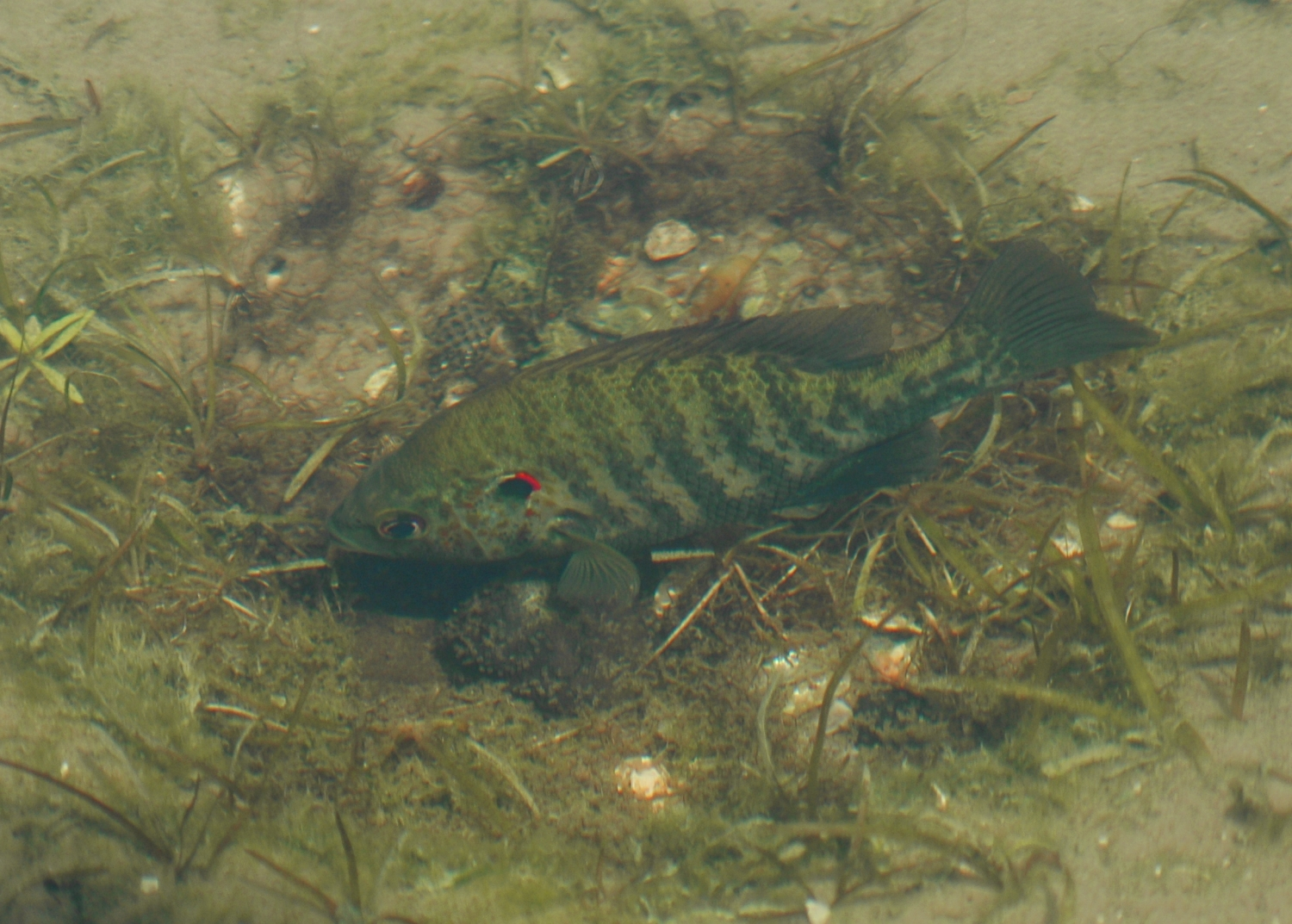 Male redear sunfish (Lepomis microlophus) guarding his eggs in a canal in Margate, Florida